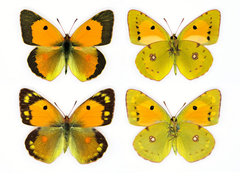 Male (up) and female (down) photos of Colias croceus